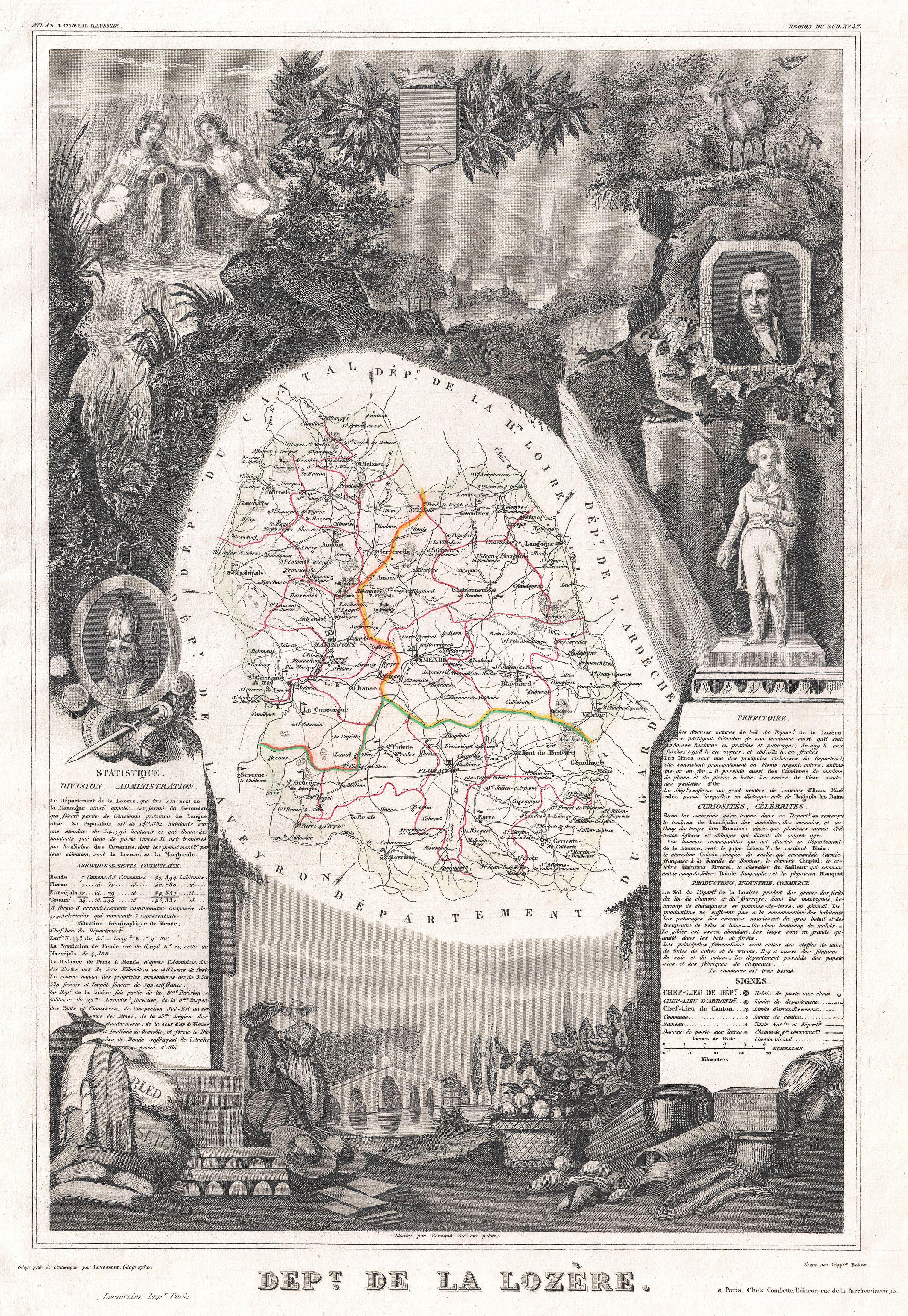 This is a fascinating 1852 map of the French department of Lozere, France. This remote mountainous part of Languedoc is rural, sparcely populated, and extremely beautiful. This area of France is famous for its cheese production. Their Roquefort, 'Bleu des Causses', and Tomme de Lozère varieties, for instance, are world-renowned. The Pilgrimage to Santiago de Compostella also passes through the northern part of this region. The map proper is surrounded by elaborate decorative engravings designed to illustrate both the natural beauty and trade richness of the land. There is a short textual history of the regions depicted on both the left and right sides of the map. Published by V. Levasseur in the 1852 edition of his Atlas National de la France Illustree.